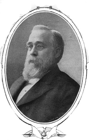 Johan Alfred Enander 1842-1910.